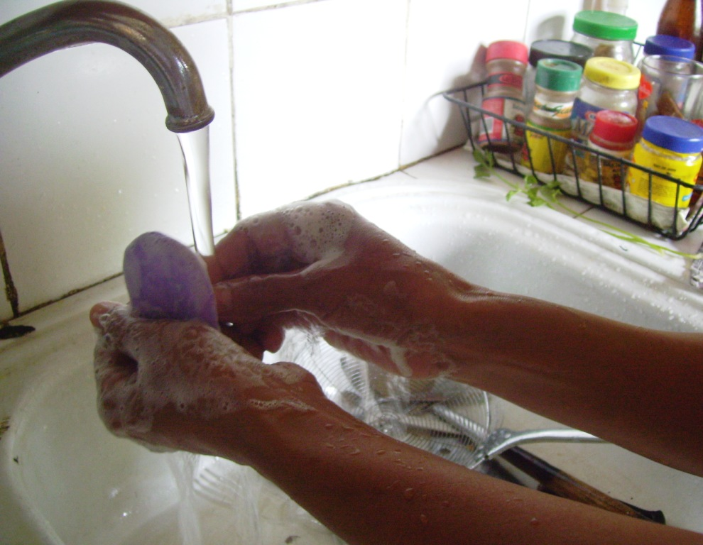 Hand washing with soap